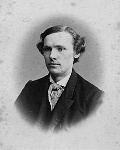 Axel Theodor Lindahl